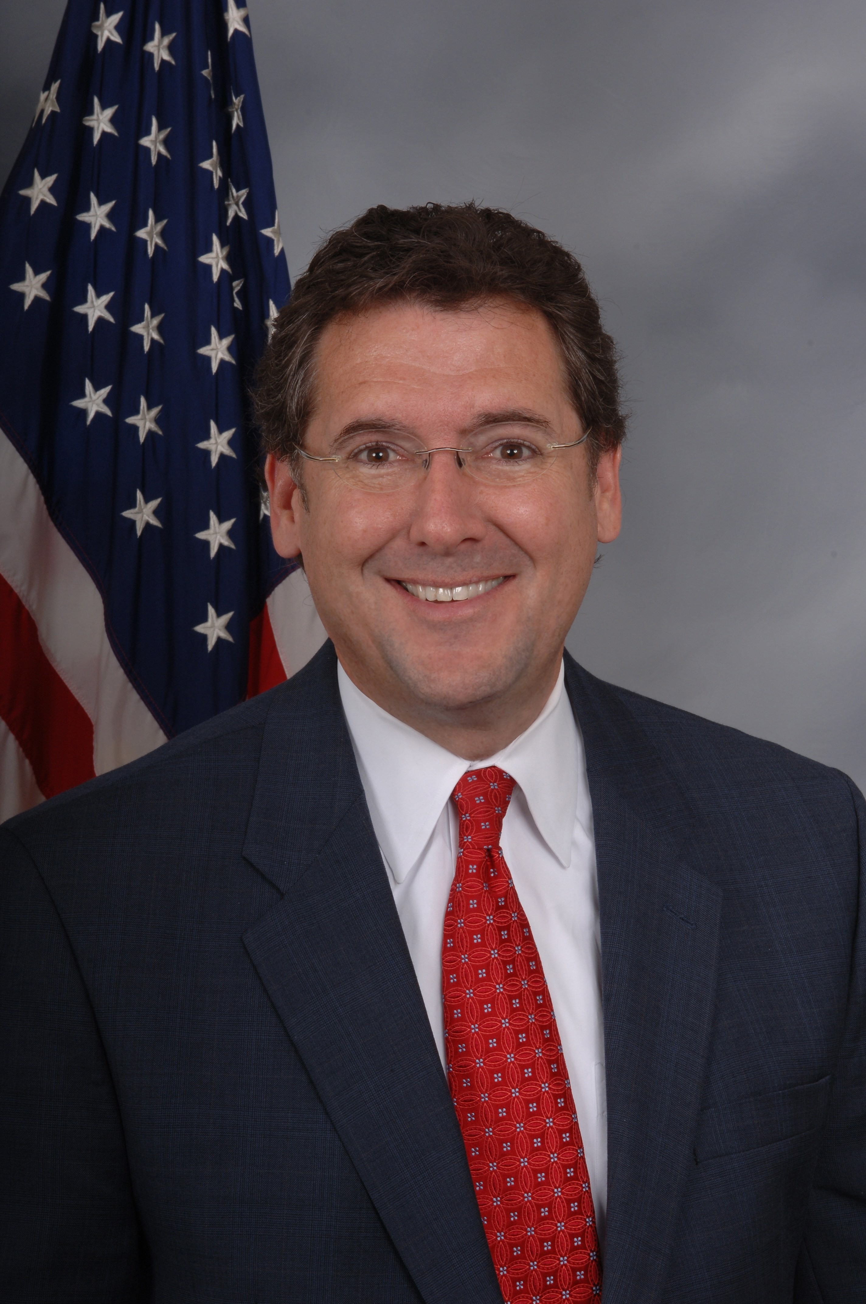 Gregg Harper, member of the United States House of Representatives from Mississippi.